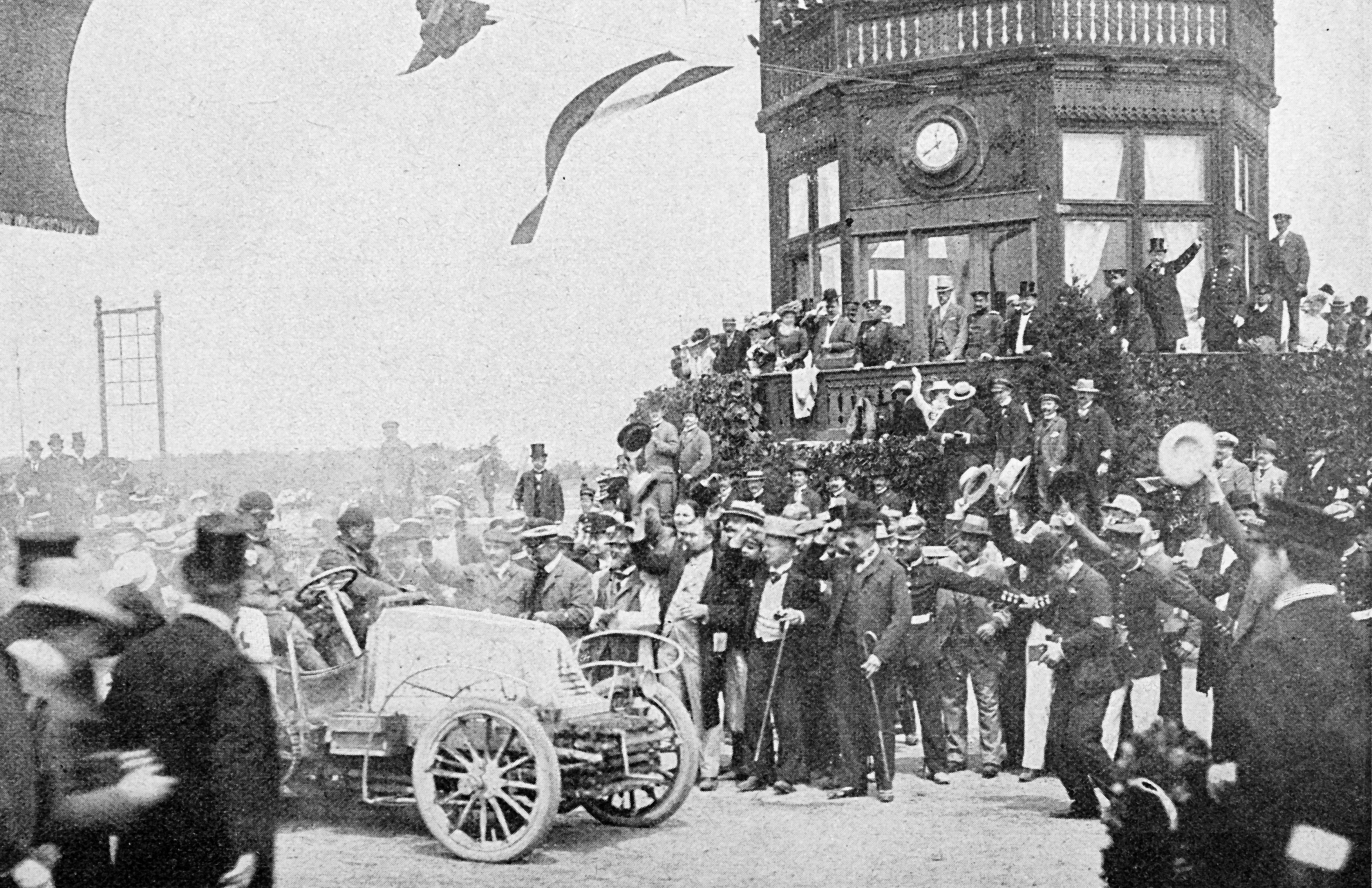 Picture of the automobile trip Paris-Berlin. Fournier crosses the finish line first at 11:40 a. m. in Westend.